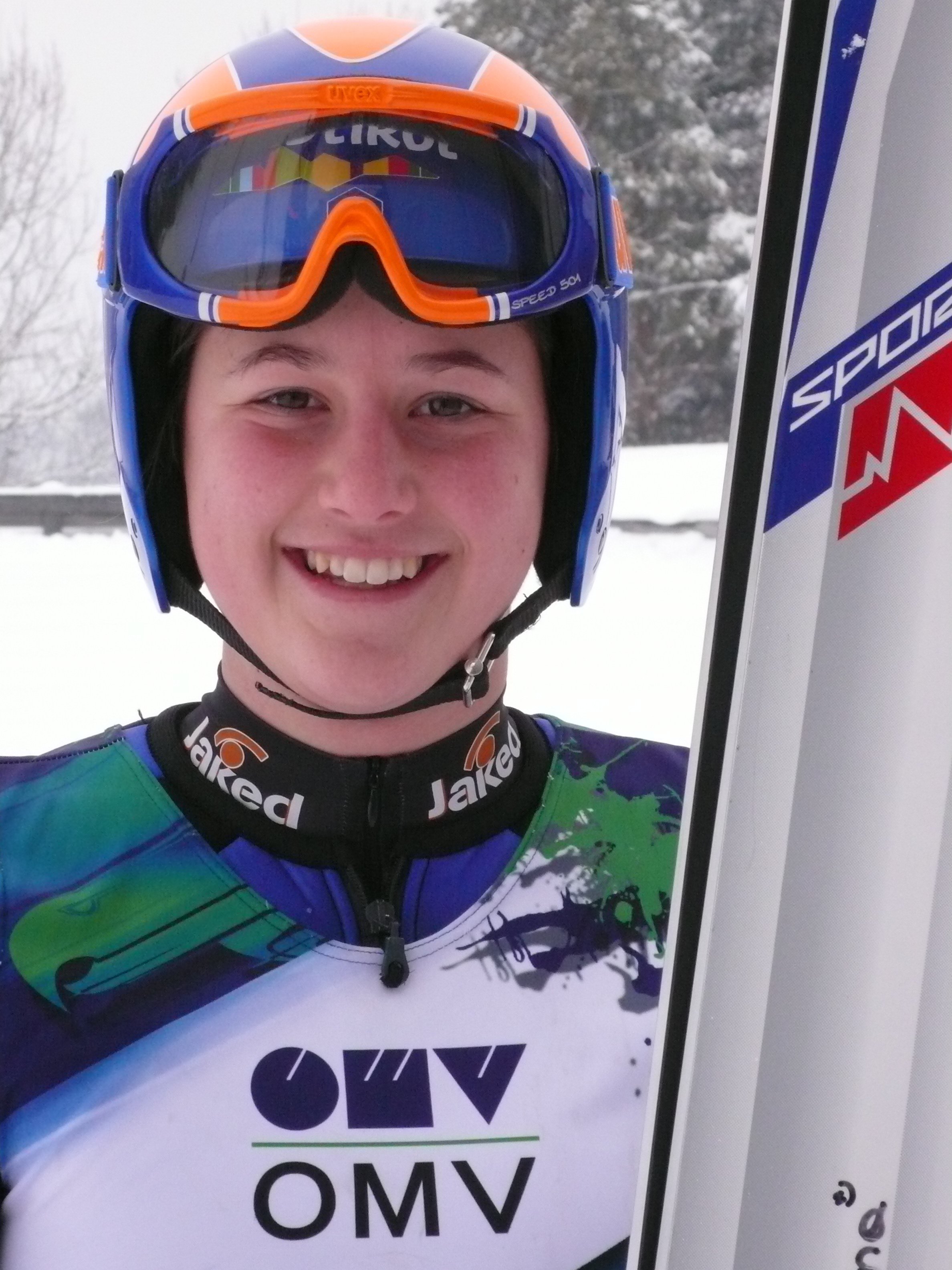 Simona Senoner, at the Ski jumping Continental Cup in Villach on the 2010-02-12.